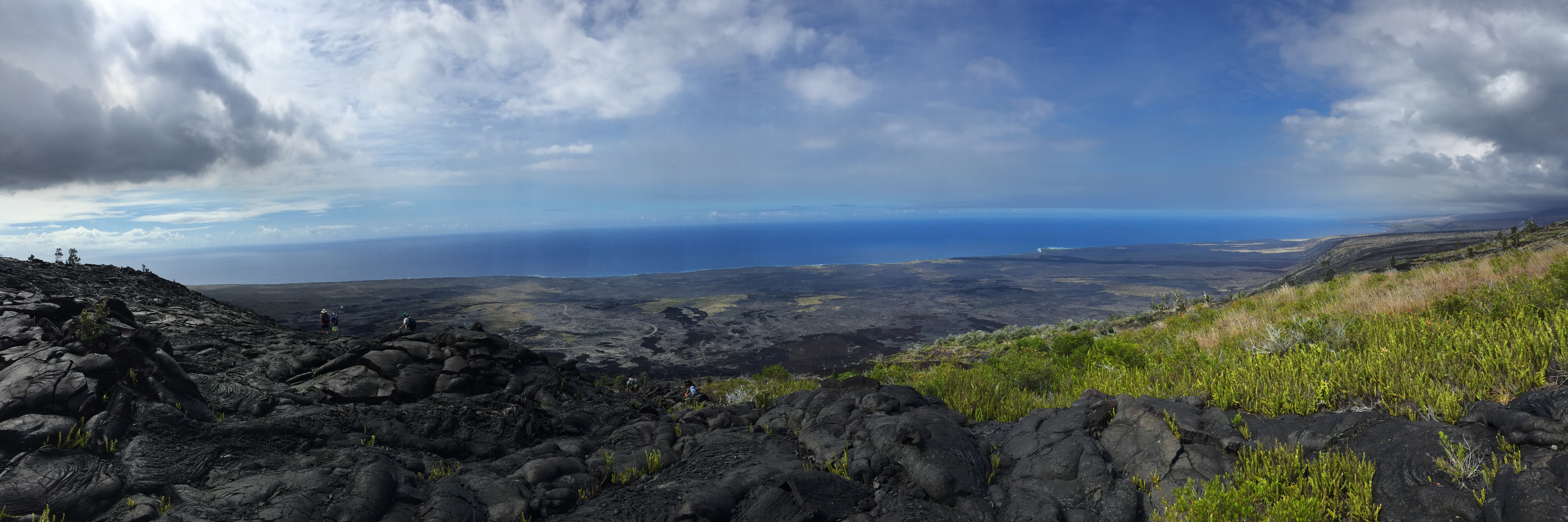 Geology students gathering kinematic GPS data on Kilauea the east rift zone for the USGS